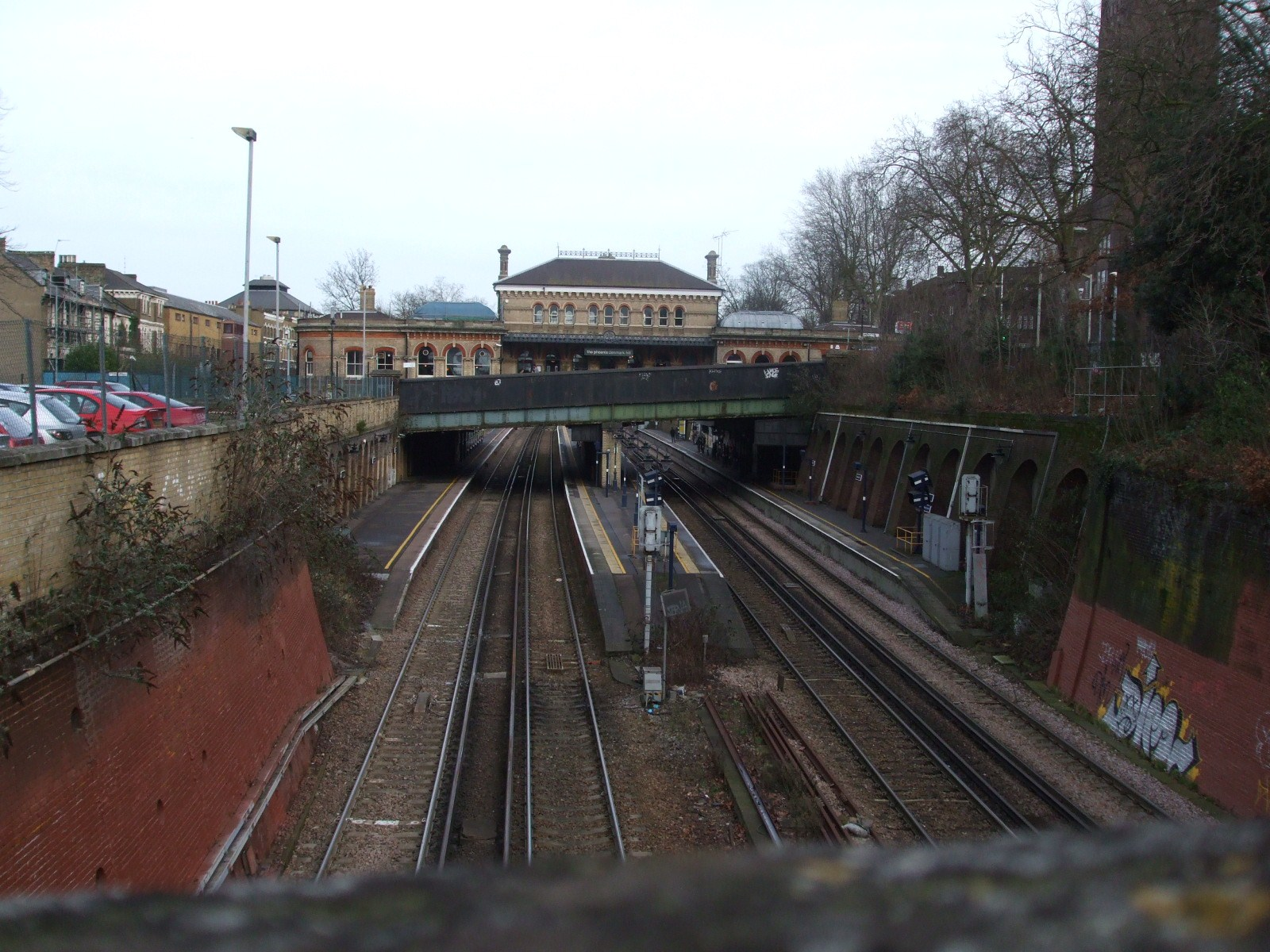 Denmark Hill station looking east from road bridge